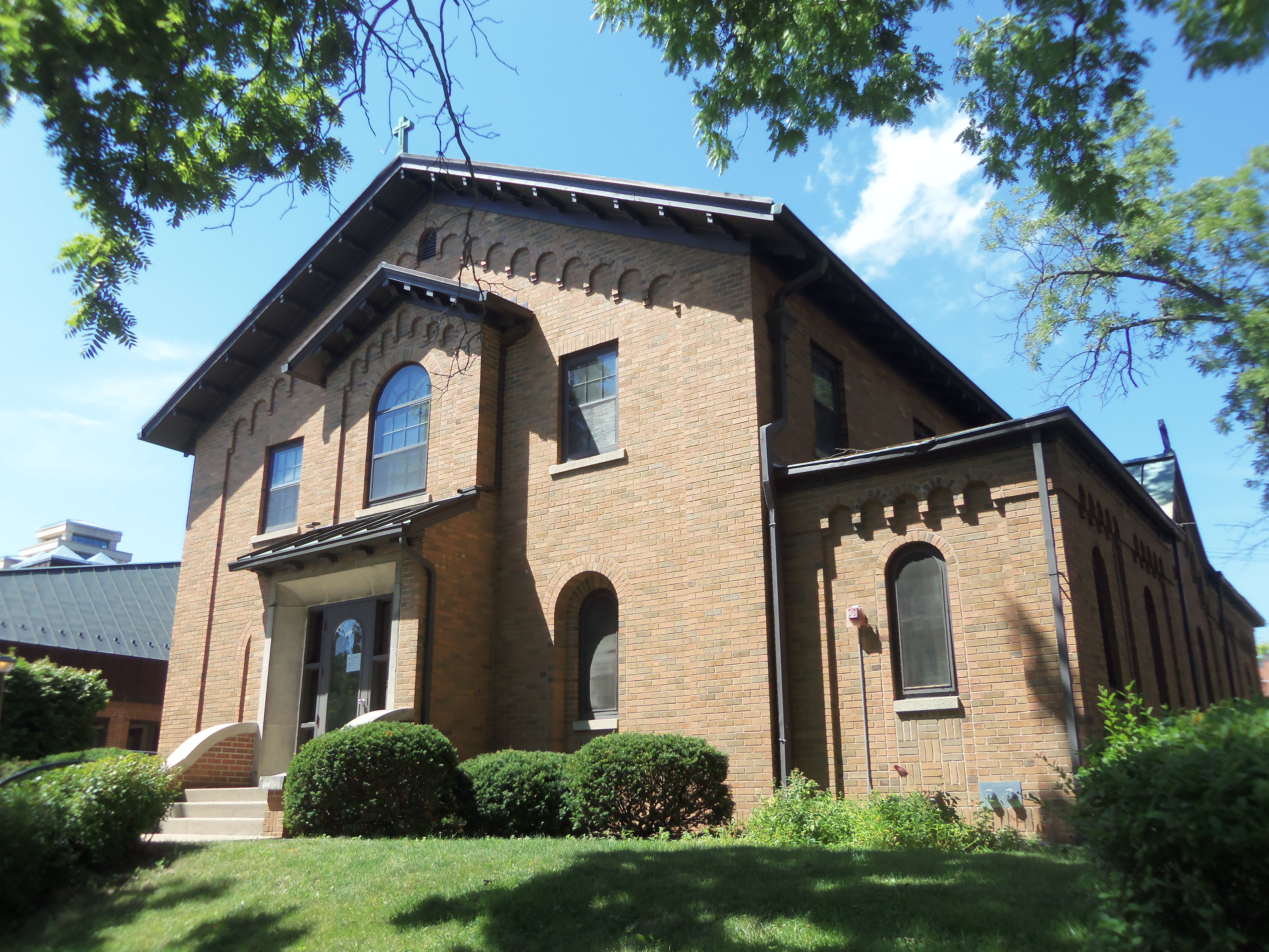 The former Saint Mary's Convent in Iowa City, Iowa. It is now part of the Newman Catholic Student Center. The building is a contributing property in the Jefferson Street Historic District on the National Register of Historic Places.